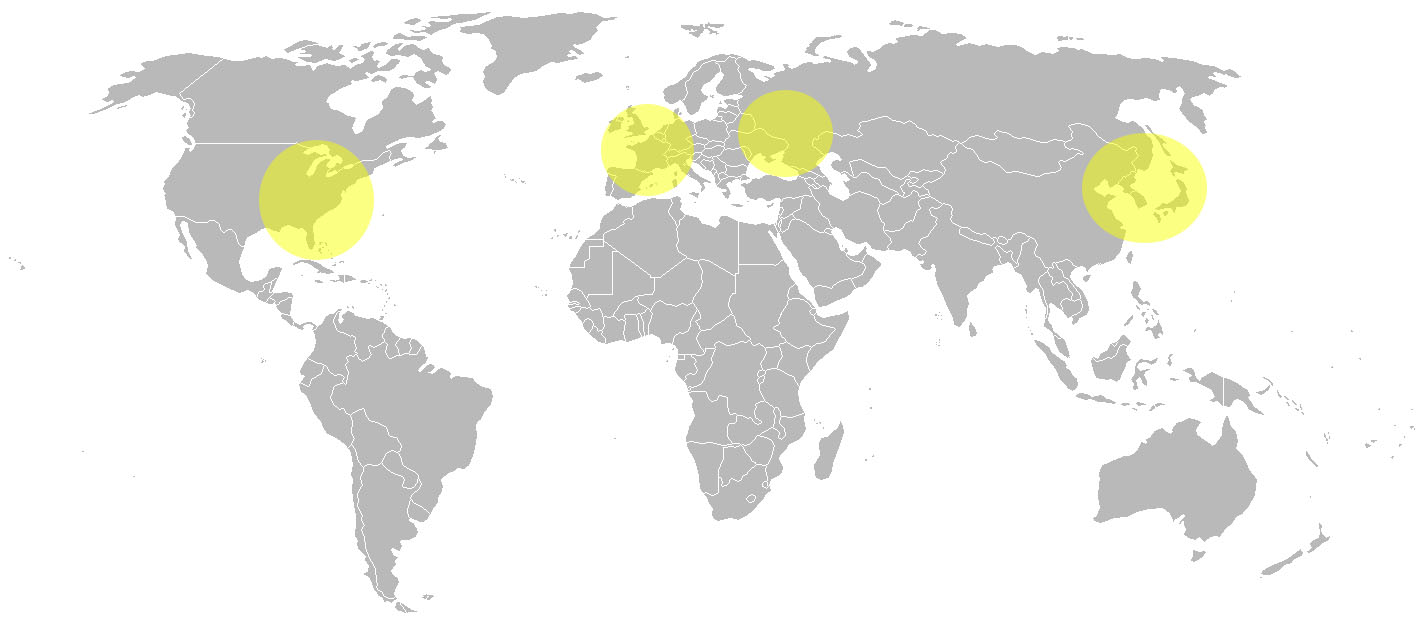 Scheme of industrial geography in world